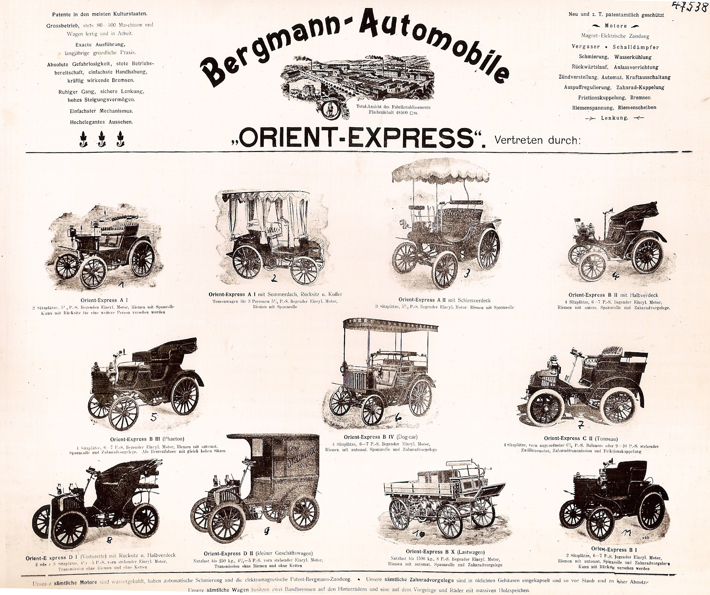 Bergmann-Automobile Orient-Express, leaflet, ca. 1900